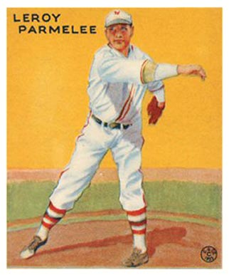 1933 Goudey baseball card of Roy Parmelee of the New York Giants #239. PD-not-renewed.